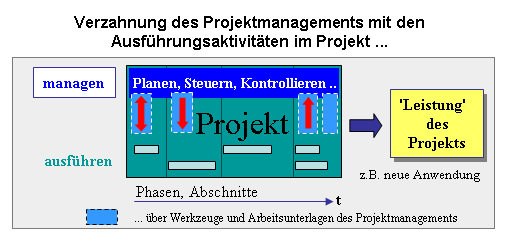 Connectivity of project management with the overall project